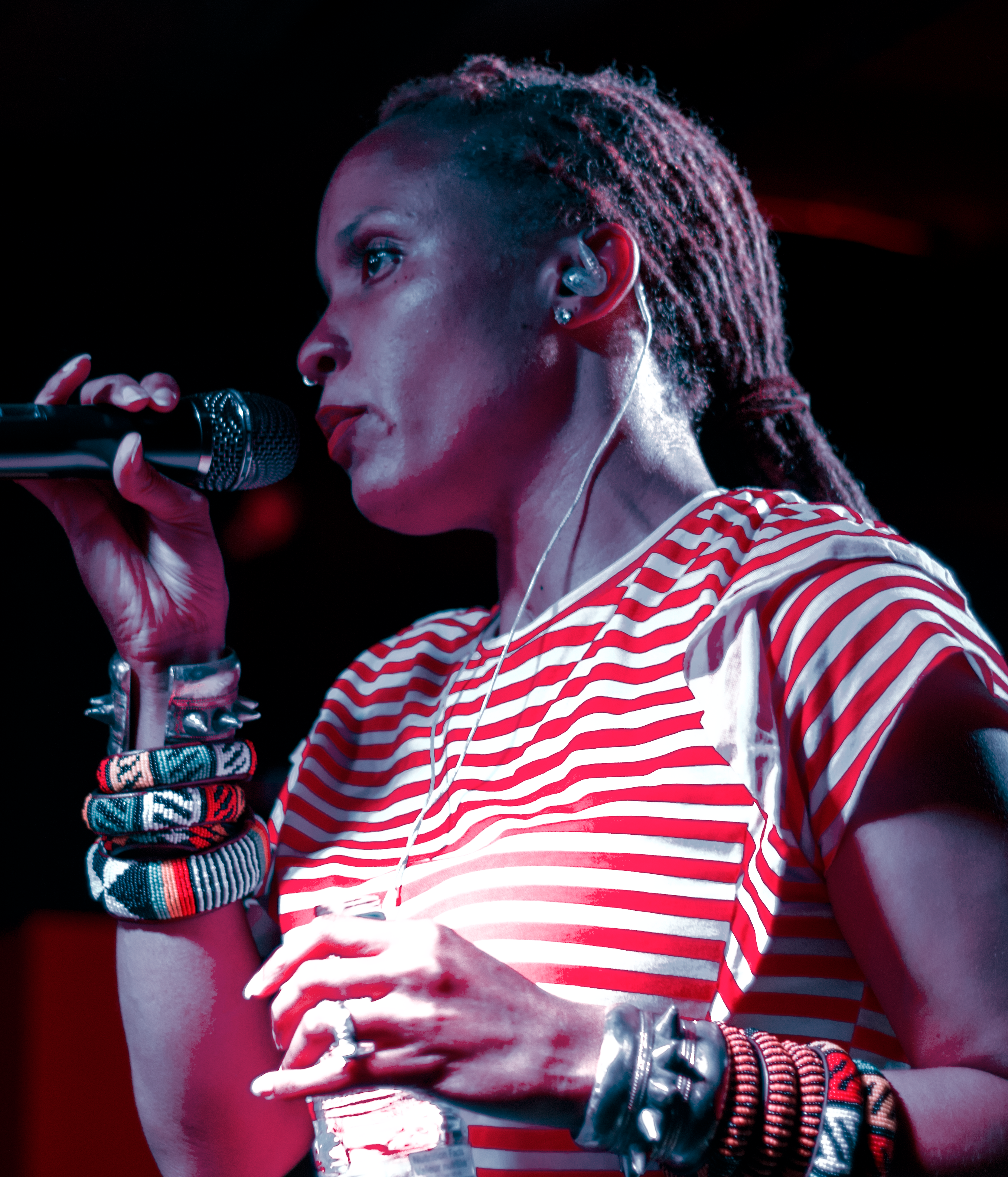 Sa-Roc Come Up Show